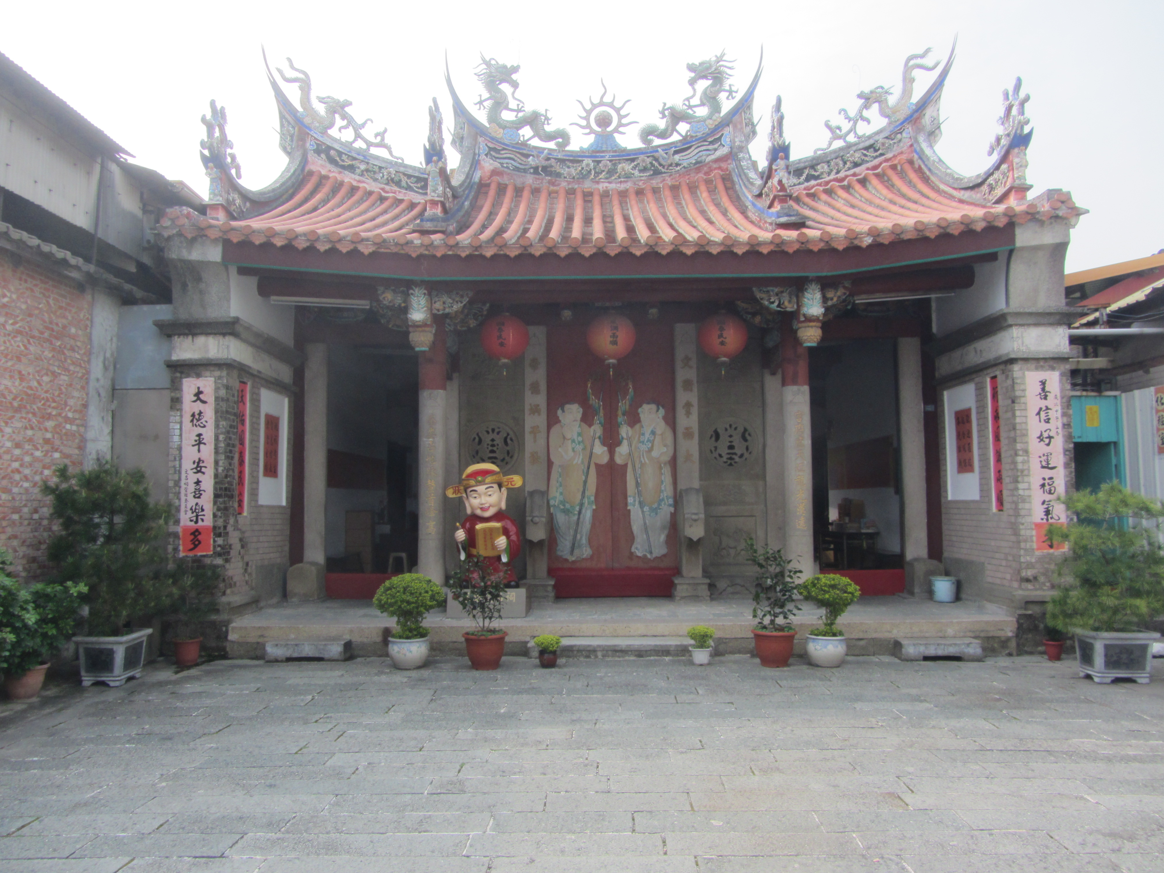 The Wunchang Shrine in Miaoli Township